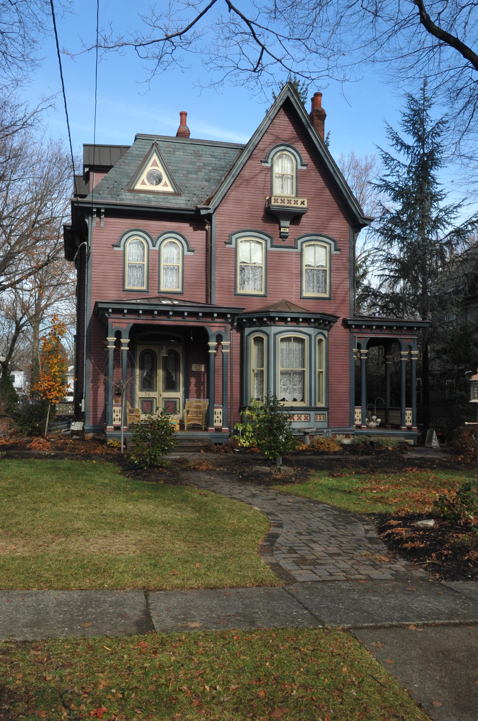 LUND HOUSE 1869 VICTORIAL STYLE FRAME HOUSE AT 37 EAST WALNUT STREET